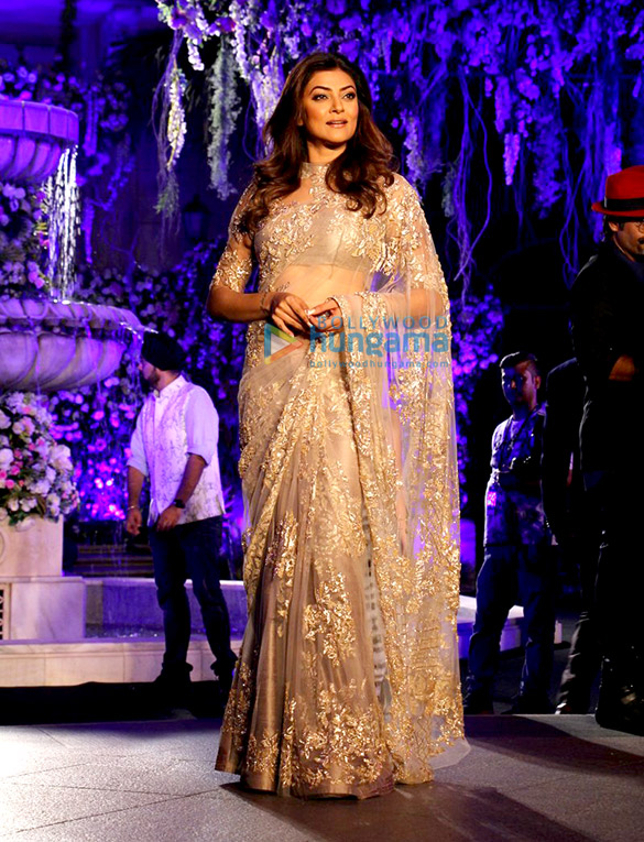 Sushmita Sen walks the ramp for Manish Malhotra at Lakme Fashion Week 2016